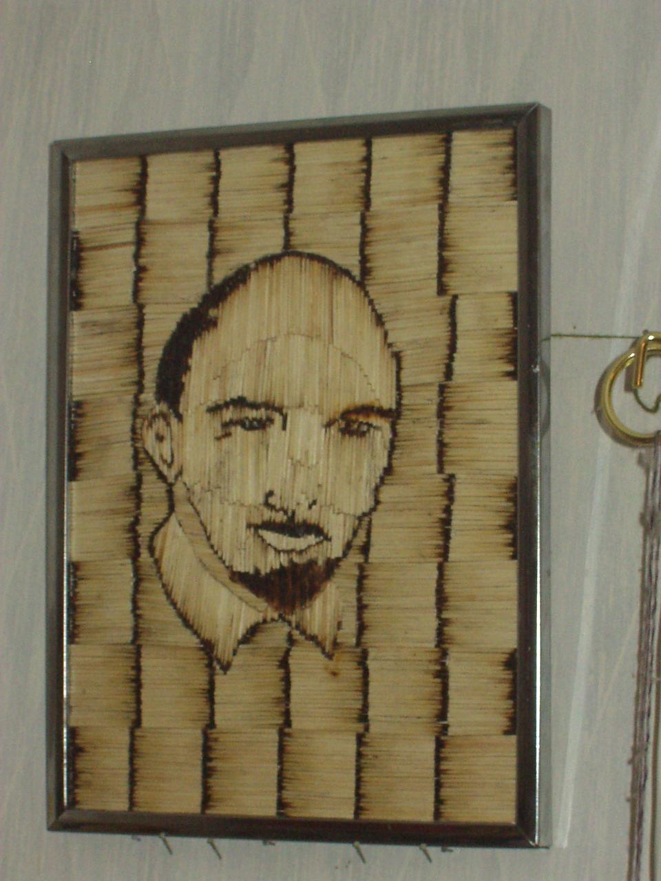 Matchstick picture of Lenin, made by the matchstickartist Anton Klepke.